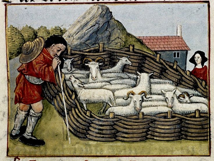 Print of sheep in woven hurdle pen. Medieval France. 15th century, MS Douce 195